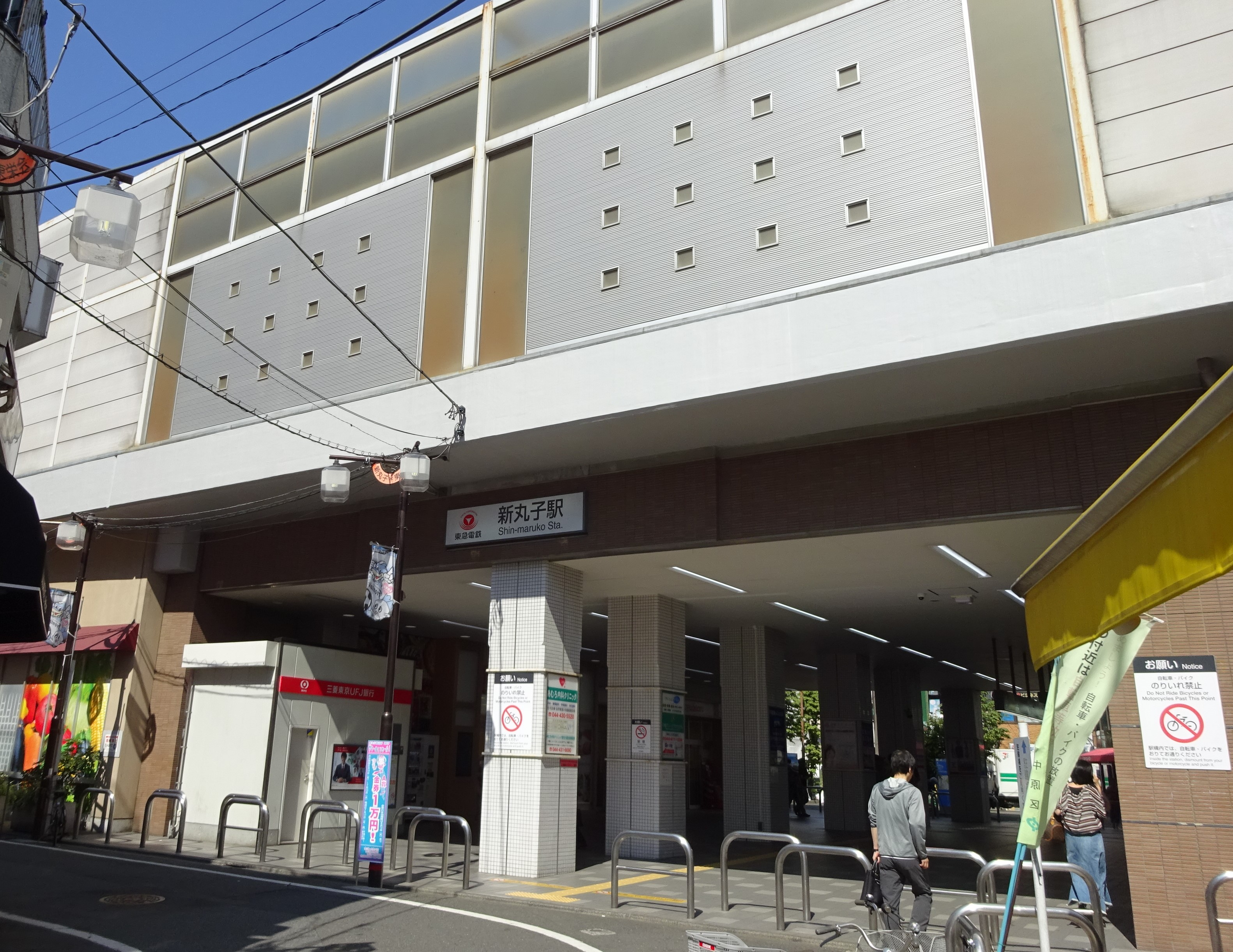 East entrance of Shin-Maruko Station